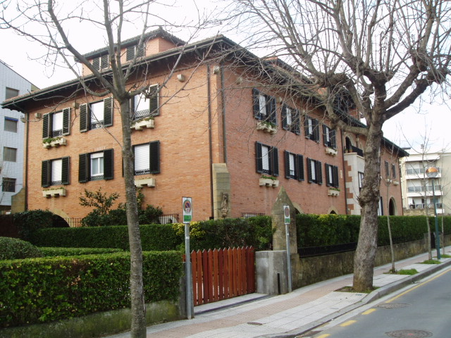 Zuazo Enea, in Zarautz (Gipuzkoa).